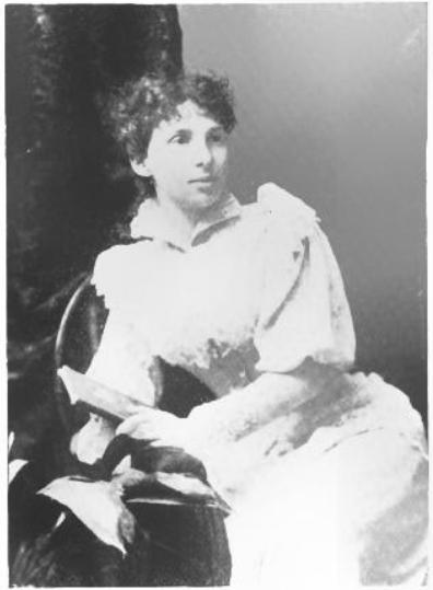 Photograph of American playwright Martha Morton, appearing in 1897 book, American Women: Fifteen Hundred Biographies